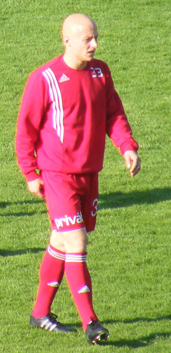 József Varga Hungarian football player